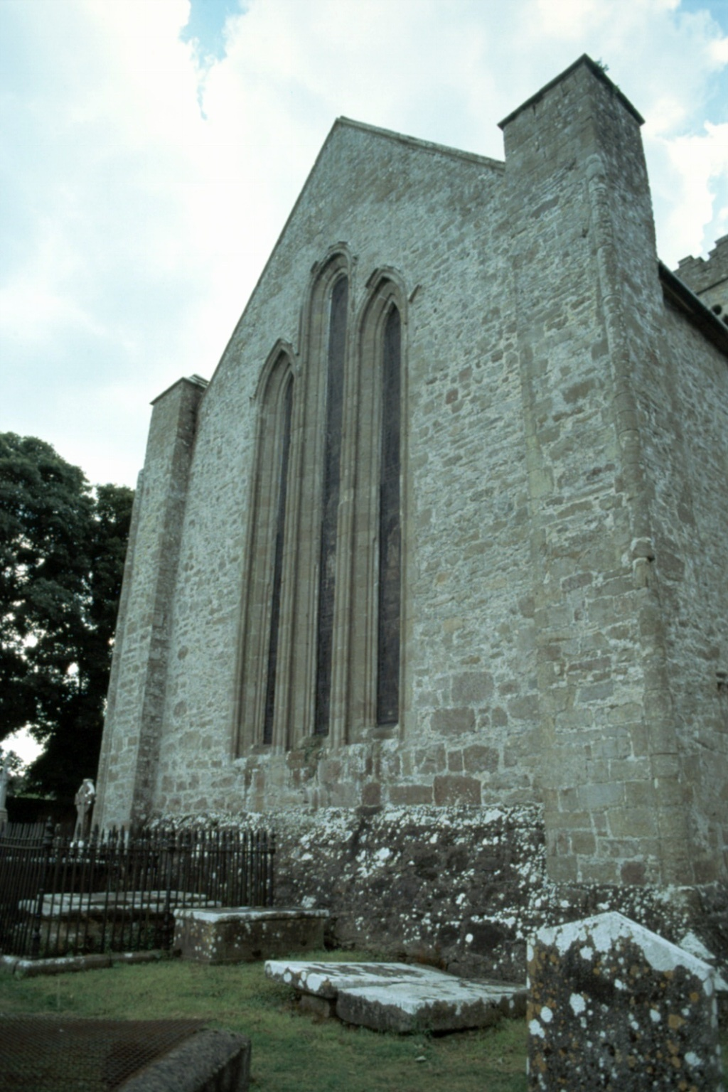 Killaloe, County Clare, Ireland East window of St. Flannan's Cathedral.